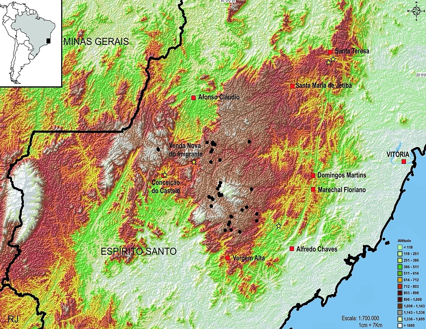 Geographical Distribuition of Melipona capixaba hives in the Espírito Santo State, Brasil, by Josemar de Carvalho Ramos.